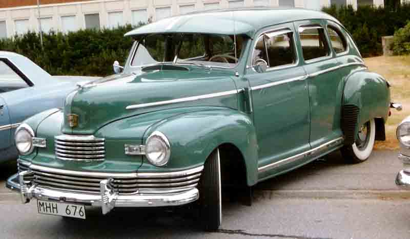 Nash Ambassador Eight 4-Door Sedan (1942)